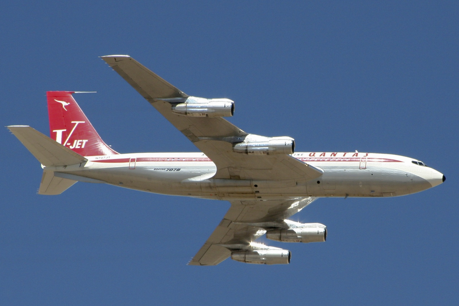 John Travolta giving the crowd a flyby in his 707 at the 2006 Reno Air Show & Races